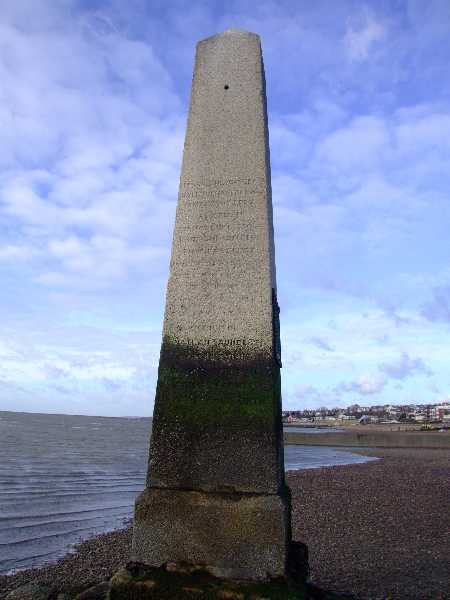 The Crowstone This was erected in 1837 and replaced the original, smaller stone, dating from 1755. The line between the Crowstone (or Crow Stone) and the 326111 marked the end of the City of London's authority over the River Thames. It is an important landmark on this section of coast and can be walked out to when the tide is out. The corresponding upstream marker is the 326070.